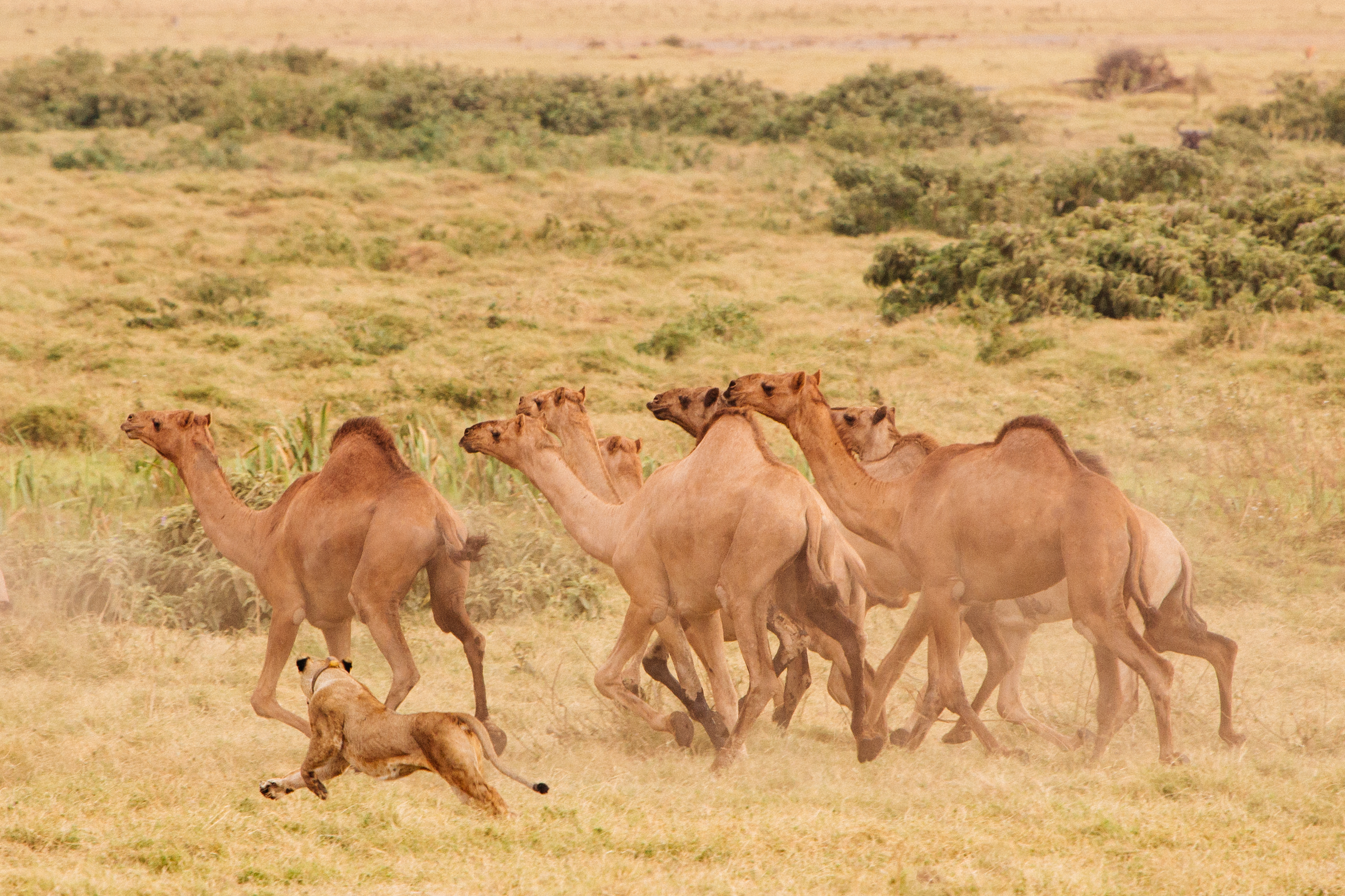 A lion hunting camels on the Masai Mara in Kenya.